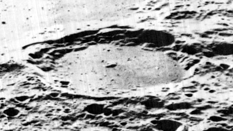 Oblique view of Davisson, on the far side of the moon, facing west.